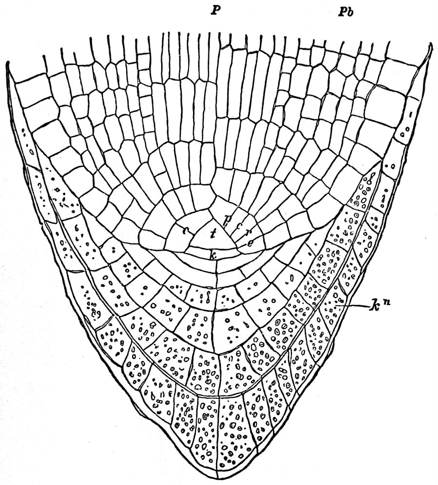 Drawing of a median longitudinal section through the apex of the root of Pteris cretica.